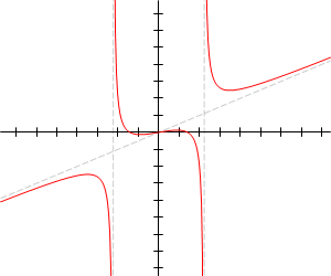 Rational function